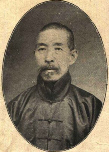 Image of the Tai Chi Master Sun Lutang (孫祿堂, 1861 - 1933)